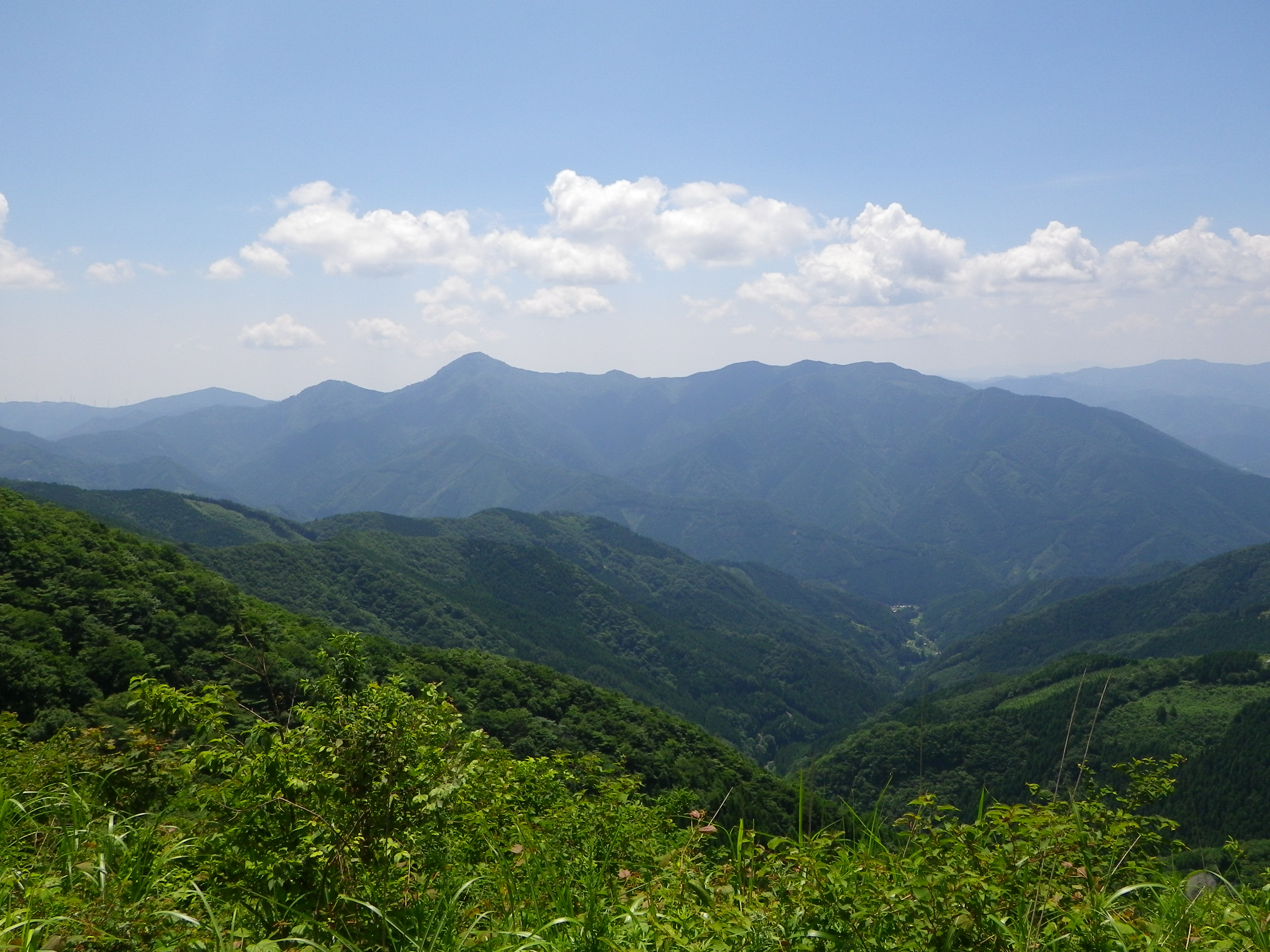 Mount Irazu (Irazu-yama) as seen from the northwest in Tsuno, Kochi Prefecture, Japan.